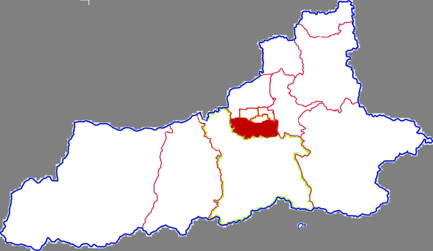 Location of Yanta district in Xi'an city, China